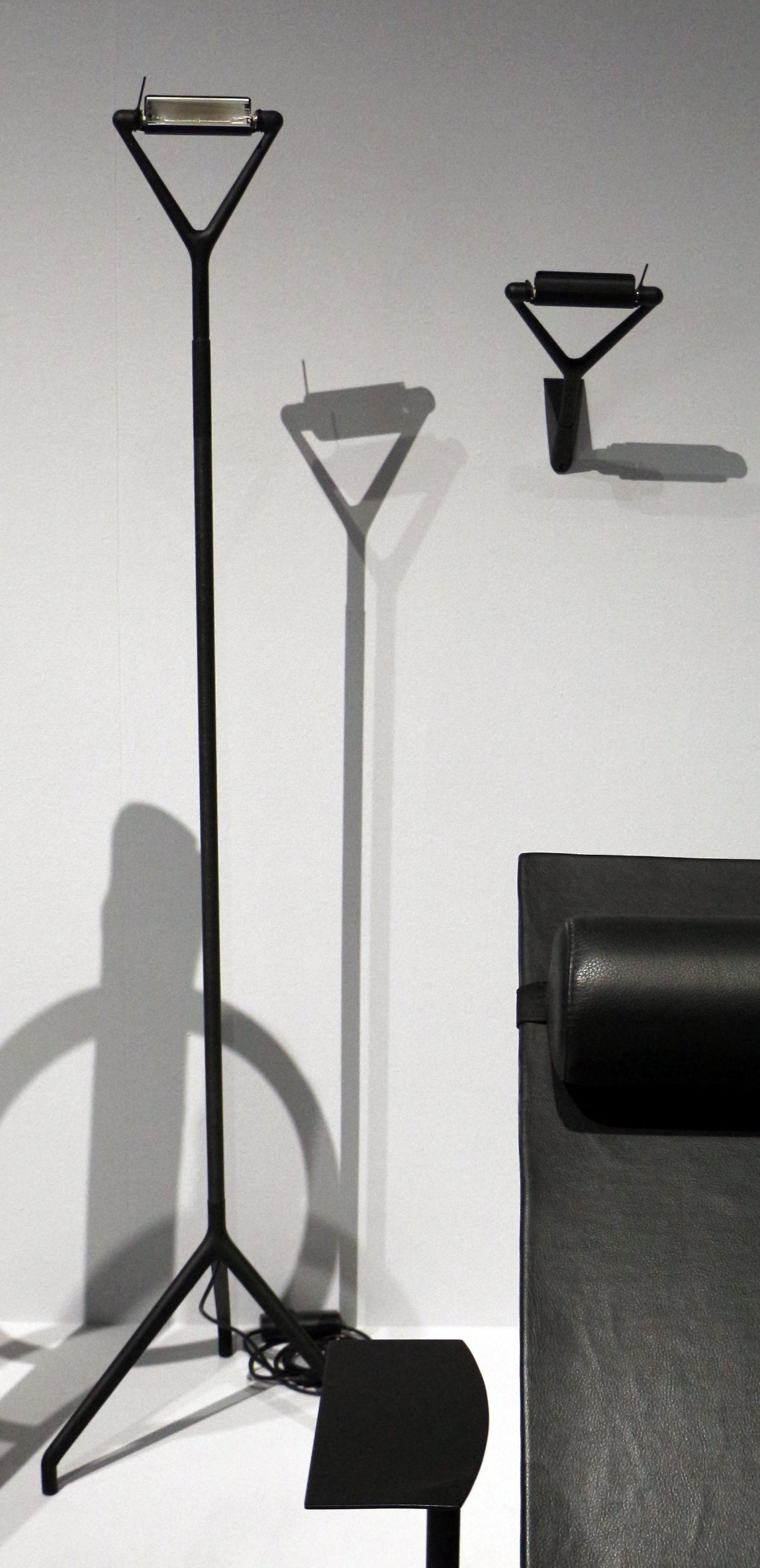 Decorative arts in the Musée national d'art moderne